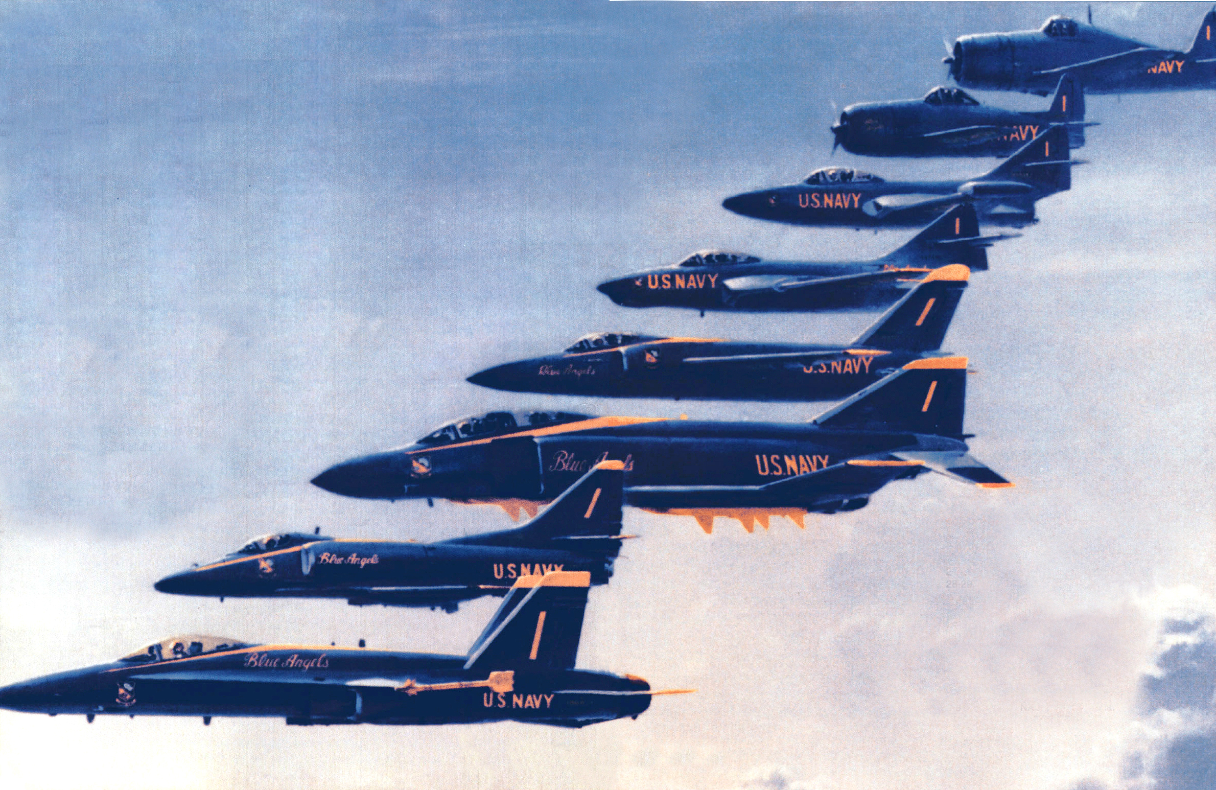 Drawing showing the different aircraft flown by the U.S. Navy "Blue Angels" aerobatics team (top to bottom): Grumman F6F-5 Hellcat: June–August 1946 Grumman F8F-1 Bearcat: August 1946 – 1949 Grumman F9F-2 Panther: 1949 – June 1950; F9F-5 Panther: 1951 - Winter 1954/55 Grumman F9F-8 Cougar: Winter 1954/55 - mid-season 1957 Grumman F11F-1 (F-11A) Tiger: mid-season 1957 – 1969 McDonnell Douglas F-4J Phantom II: 1969 – December 1974 Douglas A-4F Skyhawk: December 1974 – November 1986 McDonnell Douglas F/A-18A/C Hornet: November 1986 – present